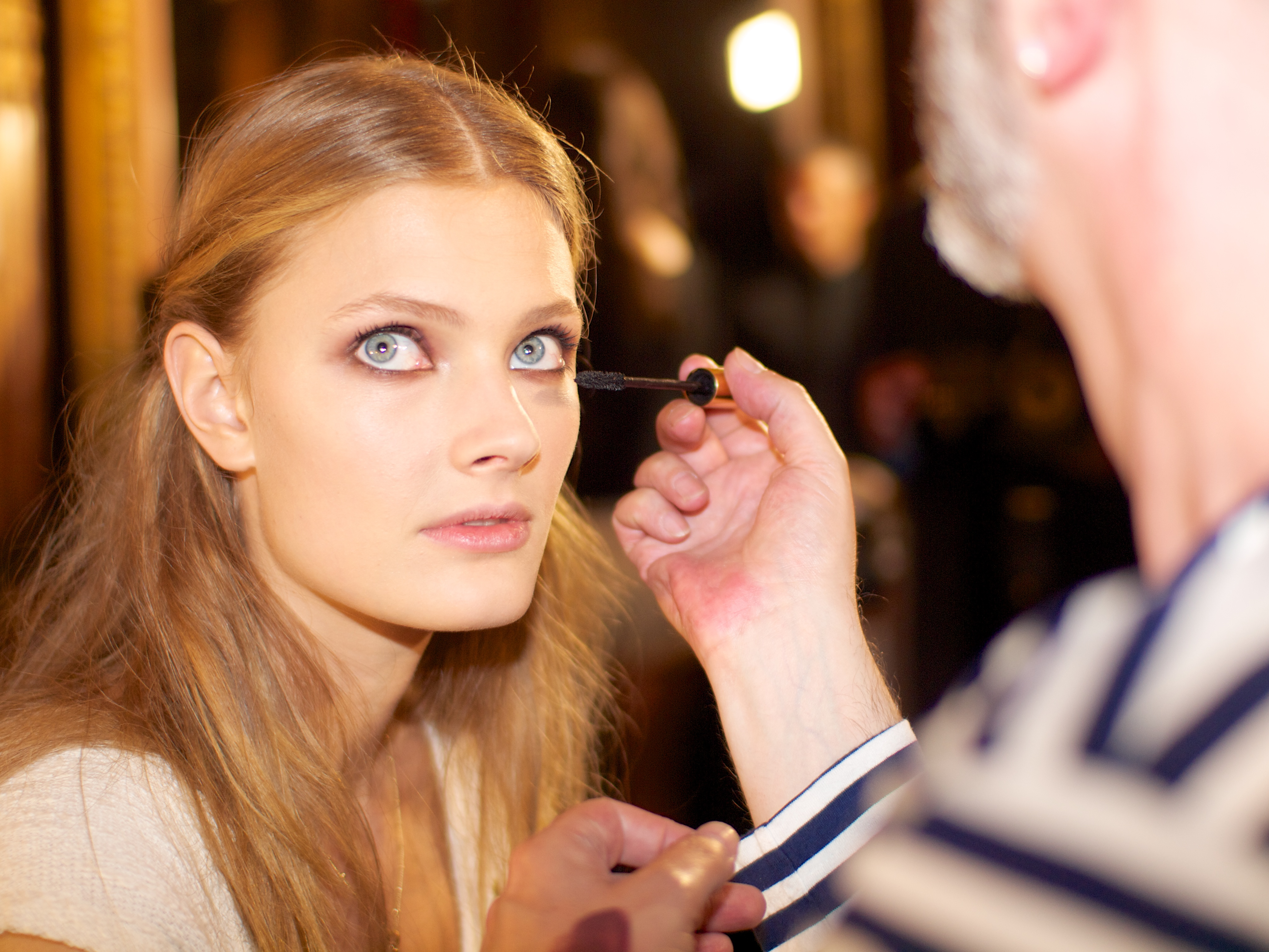 Constance Jablonski (born Oct 29, 1990 in Lille, France) is a French model. Haute couture automne-hiver 2012-2013